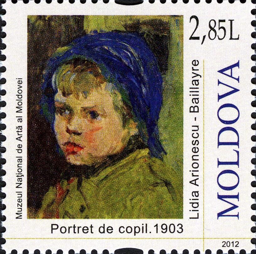 Stamps of Moldova